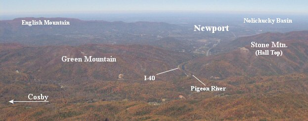 Southeastern Cocke County, Tennessee, looking north from the summit of Mount Cammerer (el. 4,928 ft./1,508m) in the Great Smoky Mountains.